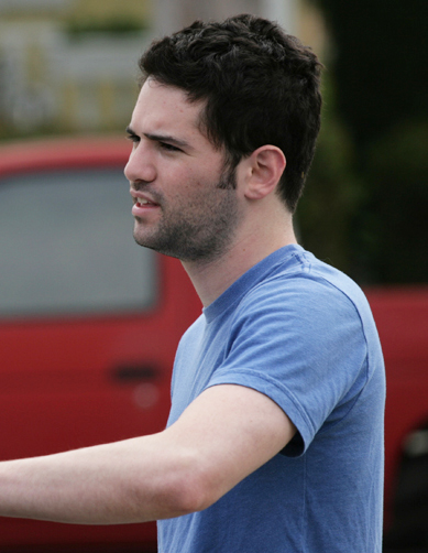 Dan Trachtenberg on location for The Totally Rad Show.